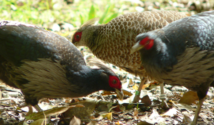 Kalij pheasant photographed in Volcanoes National Park, Hawaii, USA 12-16-2006.(taken by myself: Jeff Gladden)